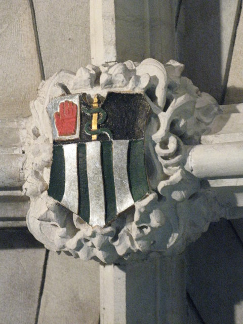 St. Bartholomew the Great - coat of arms in the roof of the cloister. See 1127672. Sir Borradaile Savory, Baronet, Rector. Argent, two pales within as many flaunches vert a chief sable thereon a staff erect entwined by a serpent ppr. In an inescutcheon the Badge of Ulster.[1]